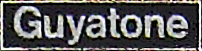 Guyatone bass amp logo (1970s) Guyatone ZIP200B (GA-200B, 1979) Electric Bass Amp.